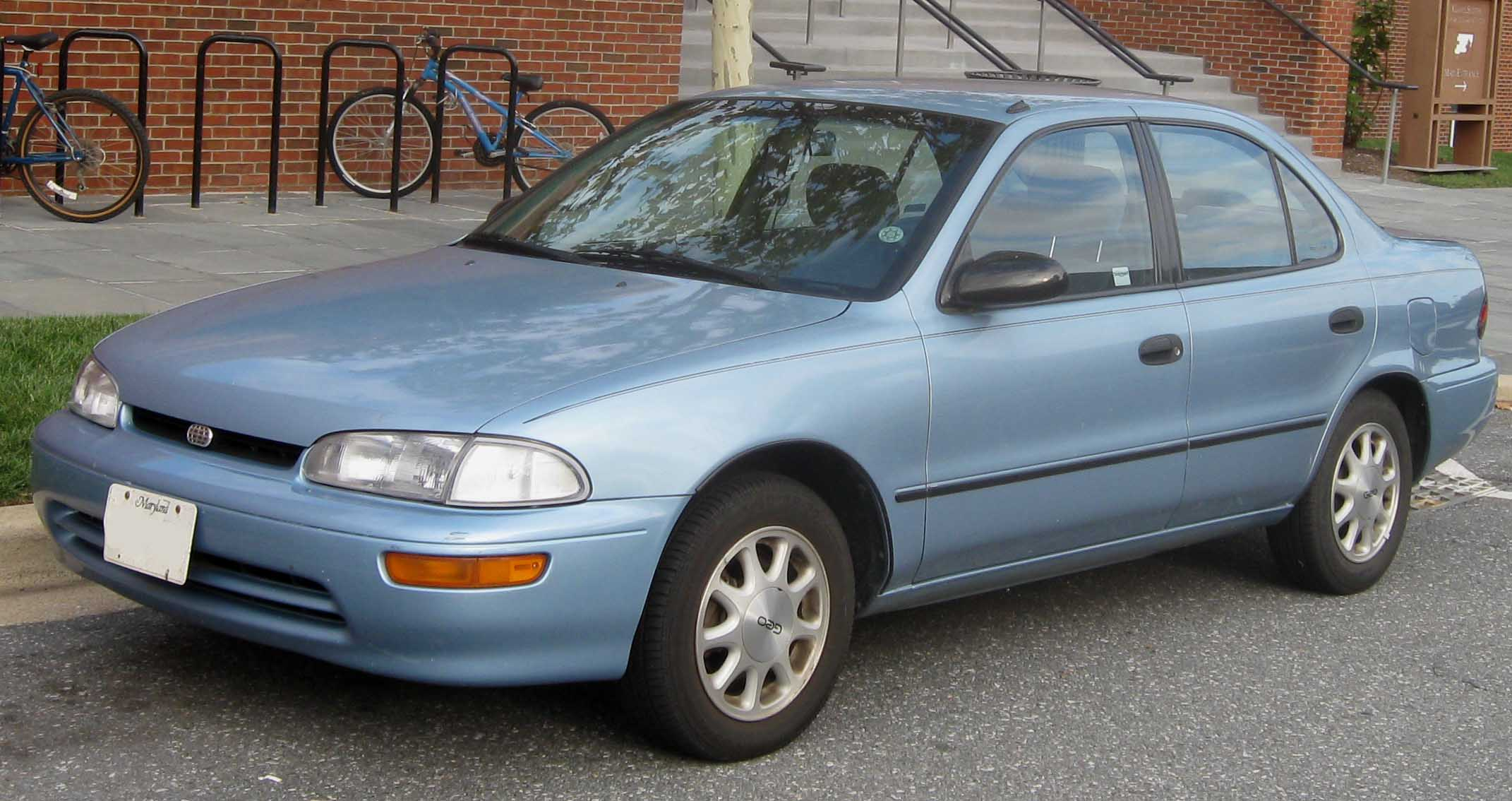 1993-1997 Geo Prizm photographed in College Park, Maryland, USA.